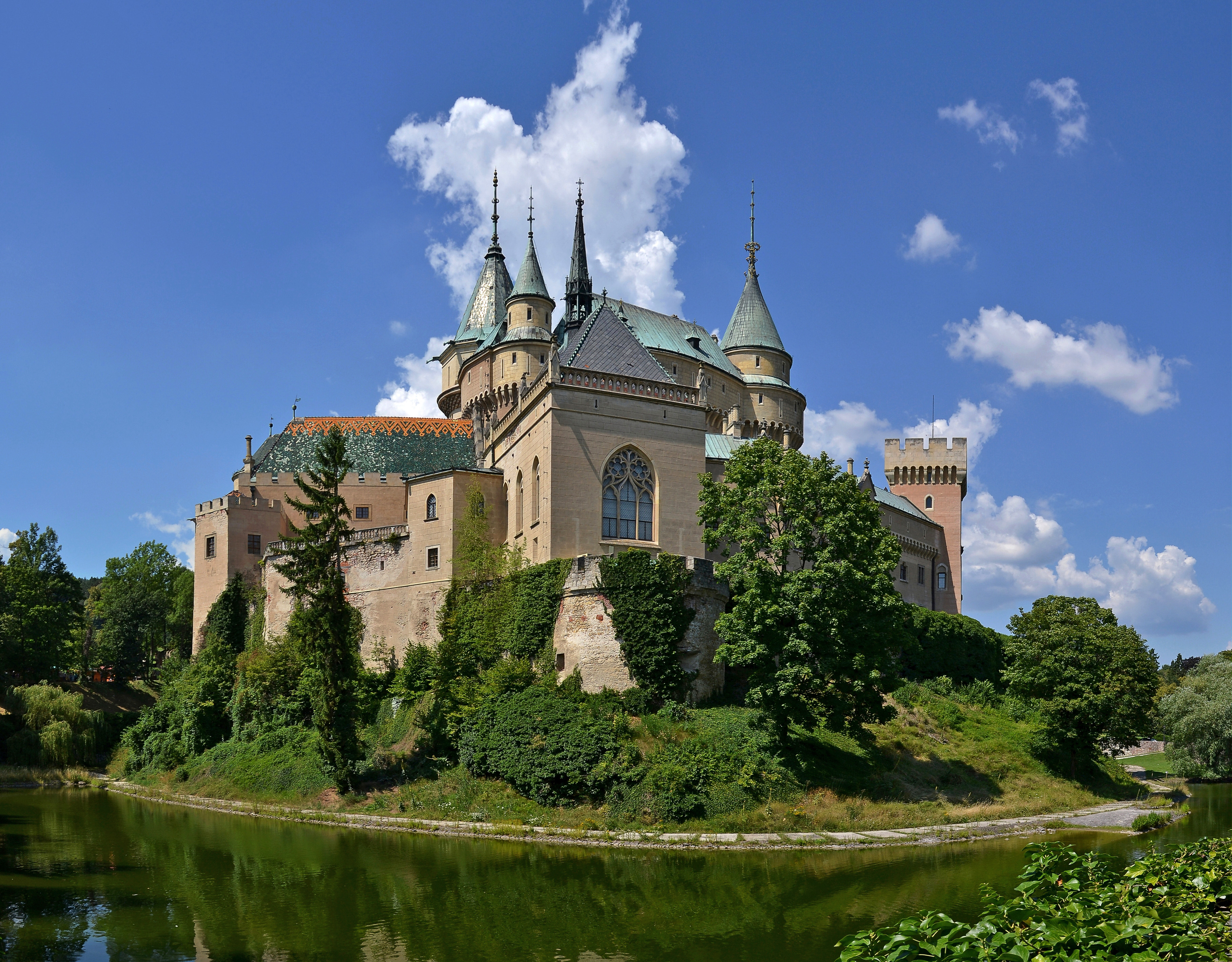 Bojnice Castle, SlovakiaEsperanto: Kastelo Bojnice